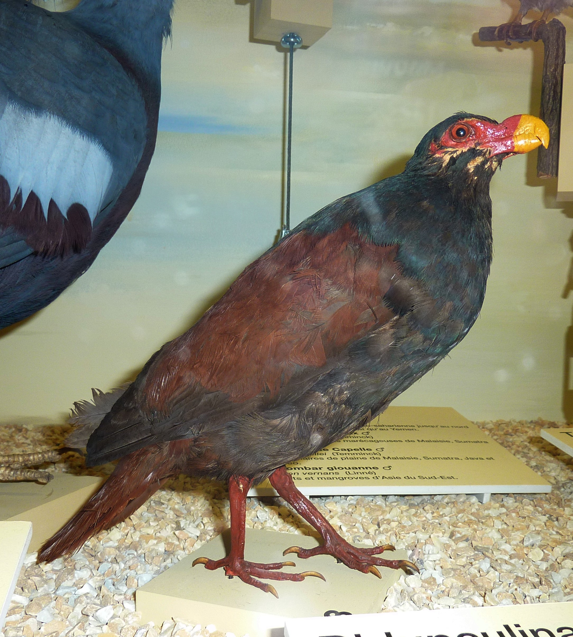 Tooth-billed Pigeon (Pterocles alchata)